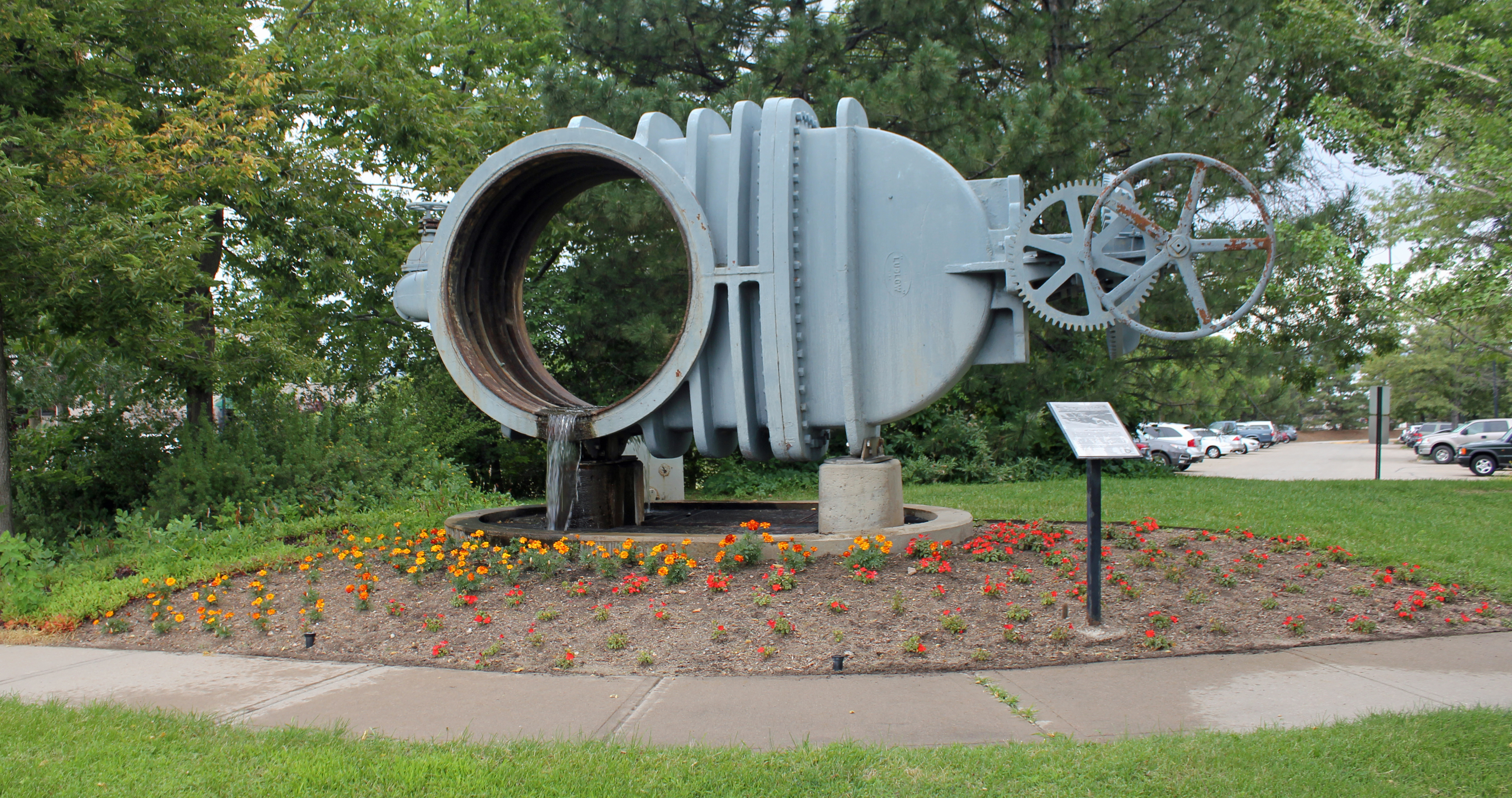 A 60-inch gate valve manufactured by Ludlow Valve Manufacturing Company in Troy, New York. The valve was used by Denver Water to regulate water diverted from the South Platte River in Waterton Canyon, Colorado to Marston Reservoir and treatment plant in southwest Denver, Colorado. The valve was used from 1924 to 1995. It is now on display at the headquarters of Denver Water in Denver, Colorado. [Update, 2017-02-16: The author is informed via email that the gate valve is no longer on the main Denver Water campus.]